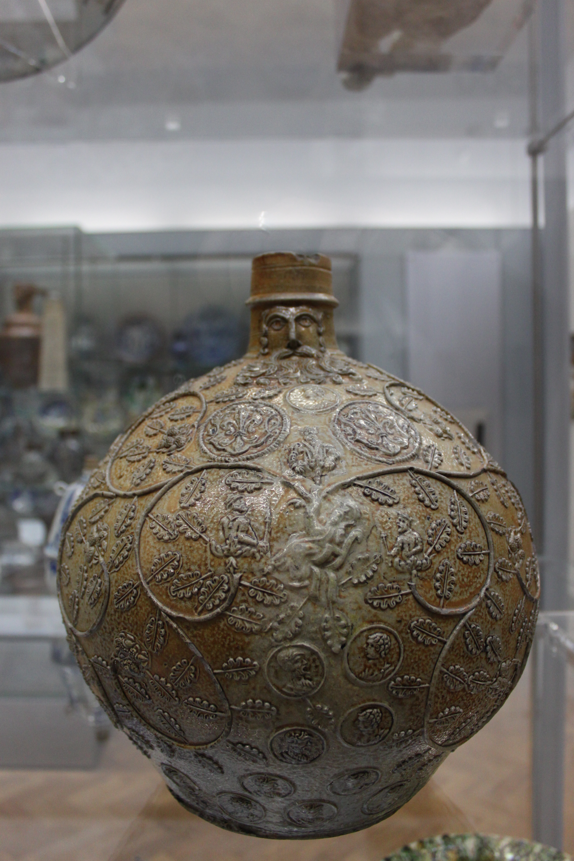 Jug with bearded face Germany, Cologne About 1550 Salt-glazed stoneware, with relief-moulded decoration and iron wash The earliest European stoneware was produced in the Rhineland in 1300-50, having developed separately from the East Asian tradition. After 1400, potters learned to throw salt into the kiln to create a tight-fitting glaze. Salt-glazed stonewares became very popular and were widely exported. This type of jug is called a Bartmann (\'beard man\') in German, a reference to the bearded face on the neck. Collection ID: 112-1908 This photo was taken as part of Britain Loves Wikipedia in February 2010 by Jenny O'Donnell.